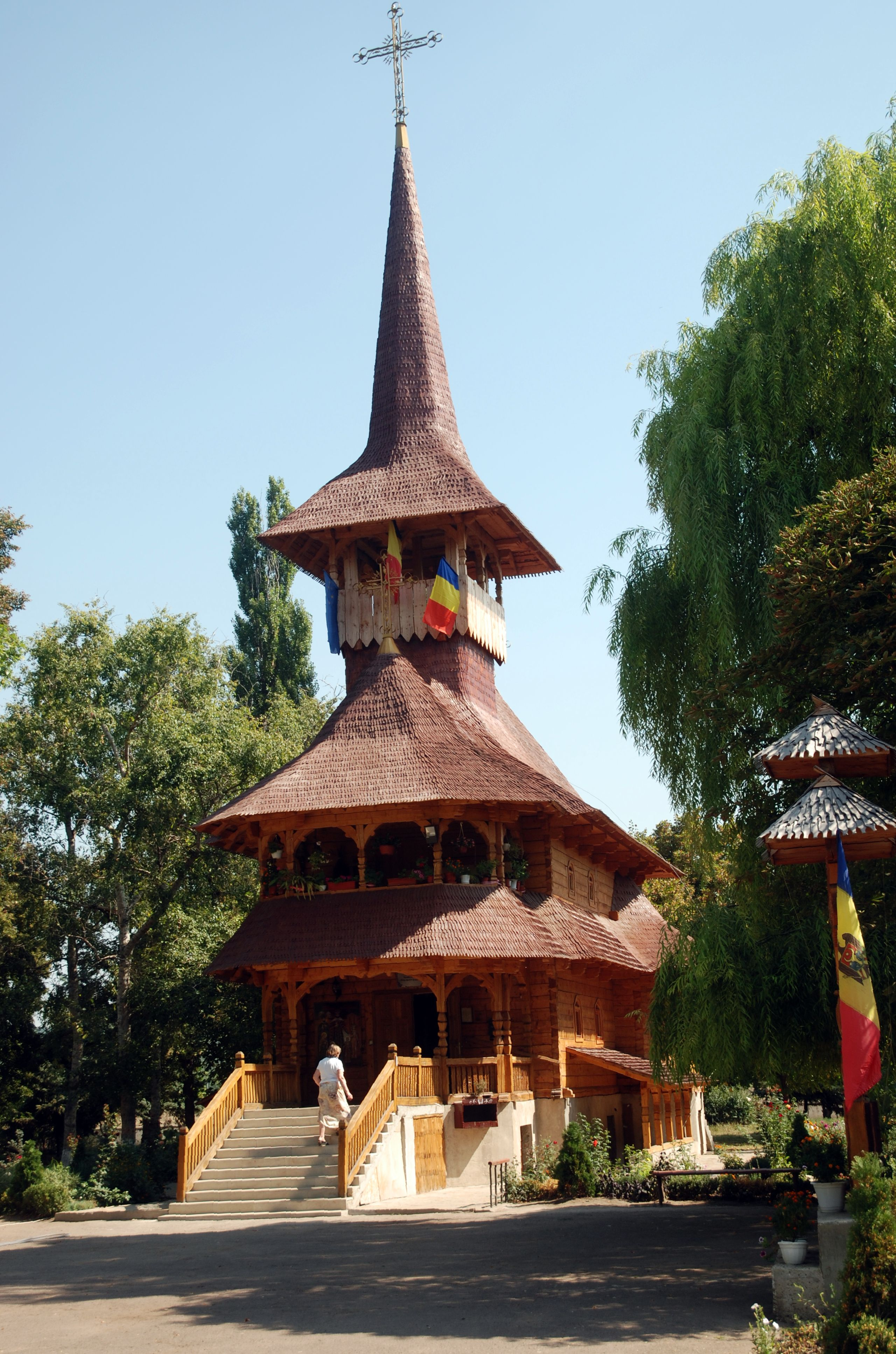 Soroca, wooden church Sf. Martiri Brâncoveni